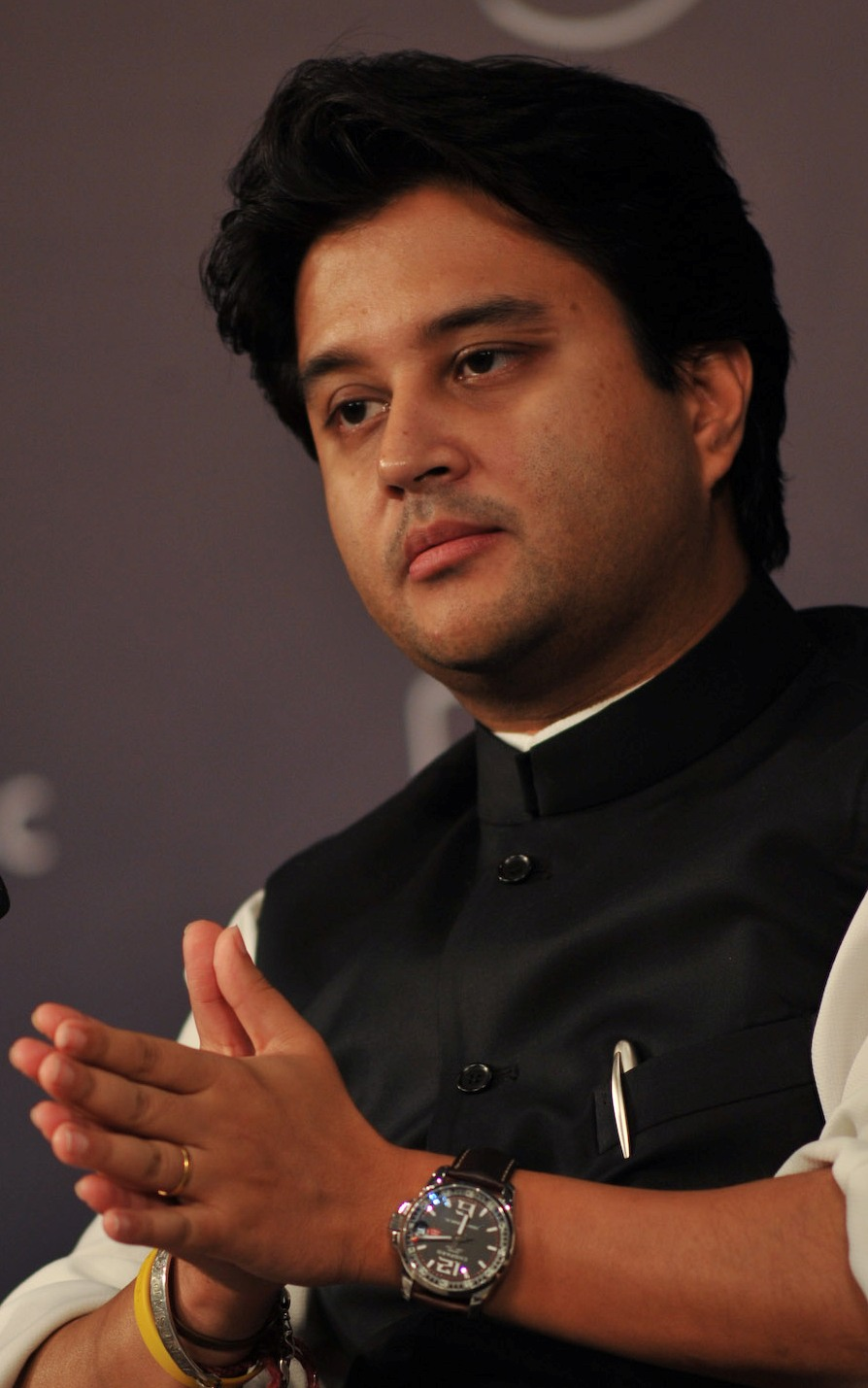 Jyotiraditya Madhavrao Scindia, Indian politician, speaking at the Plenary Session How Can India Become a Global Manufacturing Hub? during the World Economic Forum's India Economic Summit 2009 held in New Delhi.